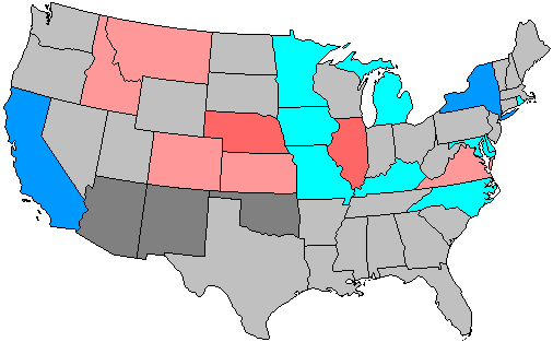 Summary of party change of U.S. house seats in the 1902 House election. Stripes indicate a tie between the gains of two or more parties. Legend: 6+ Democratic seat pickup 3-5 Democratic seat pickup 1-2 Democratic seat pickup 1-2 Republican seat pickup 3-5 Republican seat pickup 6+ Republican seat pickup 1-2 Populist seat pickup 3-5 Populist seat pickup Note: years ending in 2 may have inconsistent results due to redistricting.